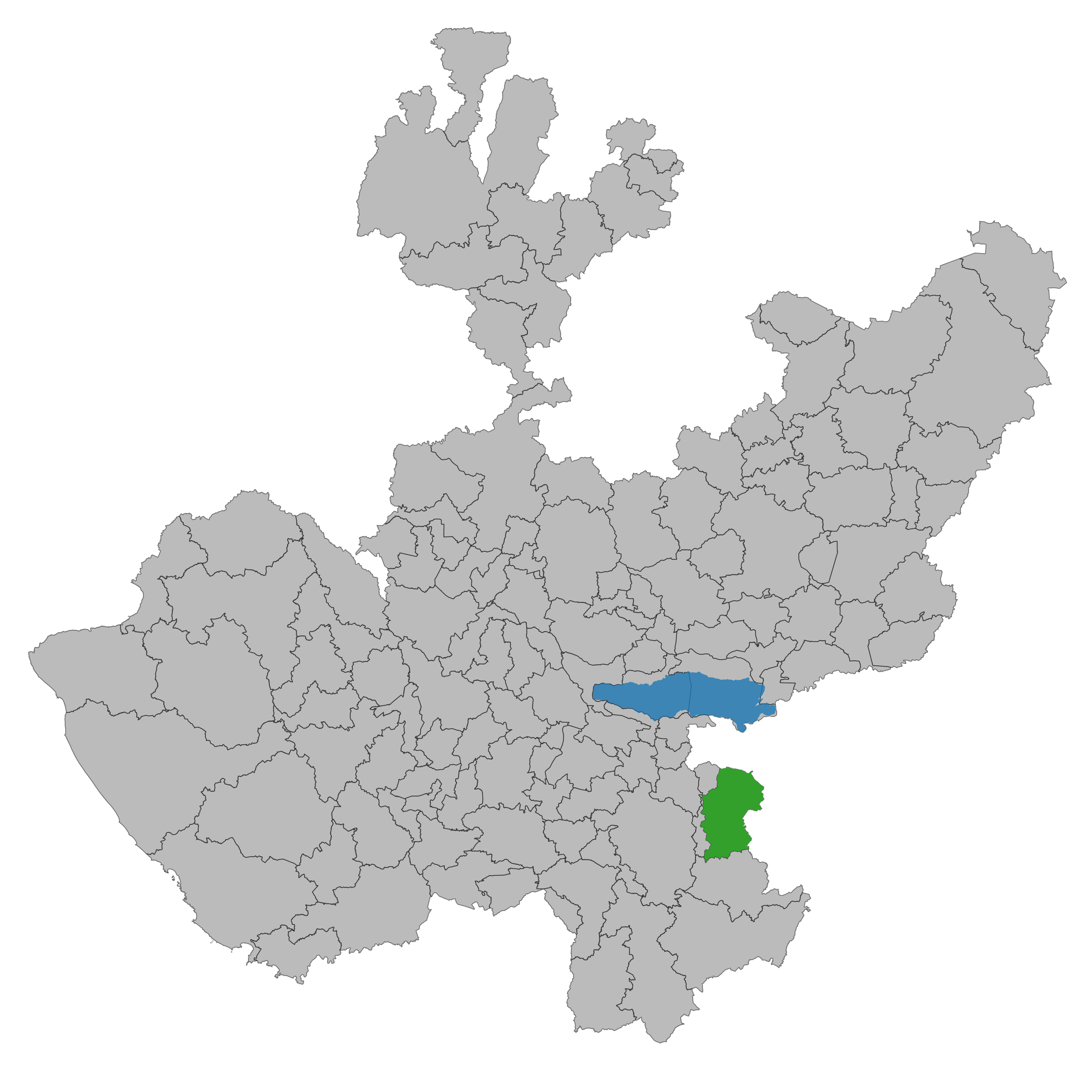 Municipality of Jalisco. Prepared with the software QGIS version 2.8.2 Wien & with information of SCINCE 2010 version 05/2013